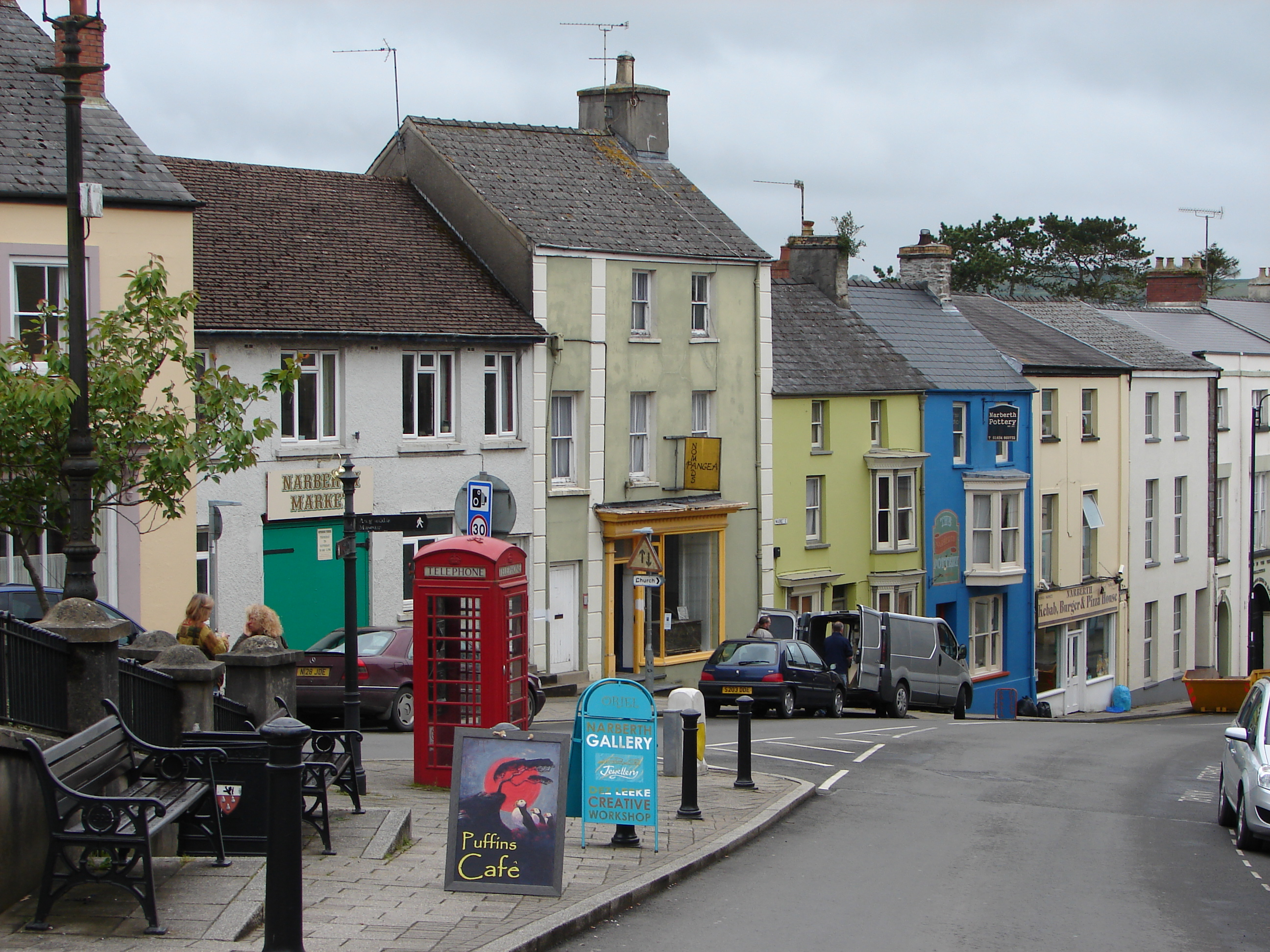 A view of the town centre of Narberth in Pembrokeshire, Wales, Great Britain.